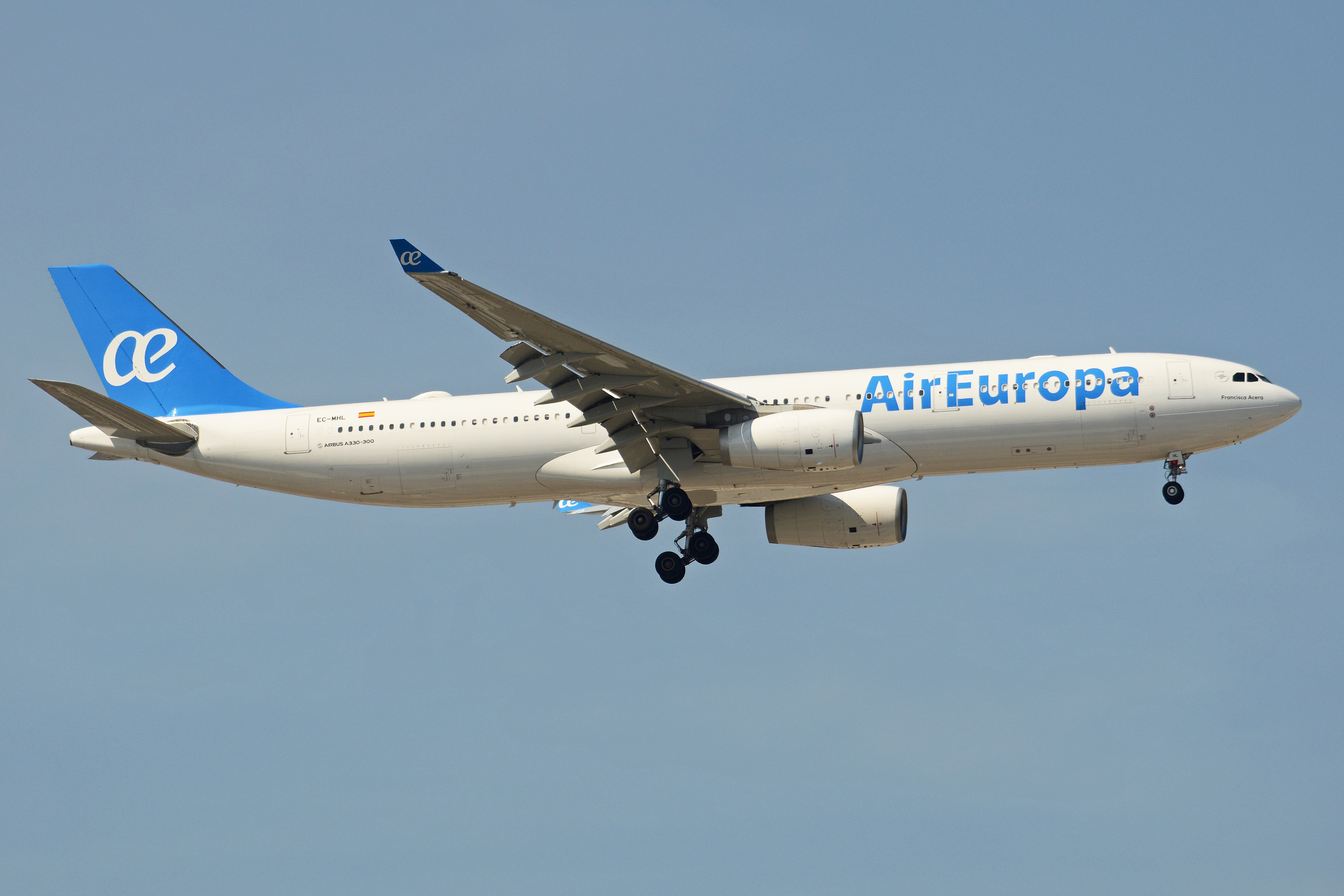 c/n 1574. Built 2014. Seen arriving on flight UX72 from Caracas, Madrid-Barajas International Airport, Spain. 21-5-2016